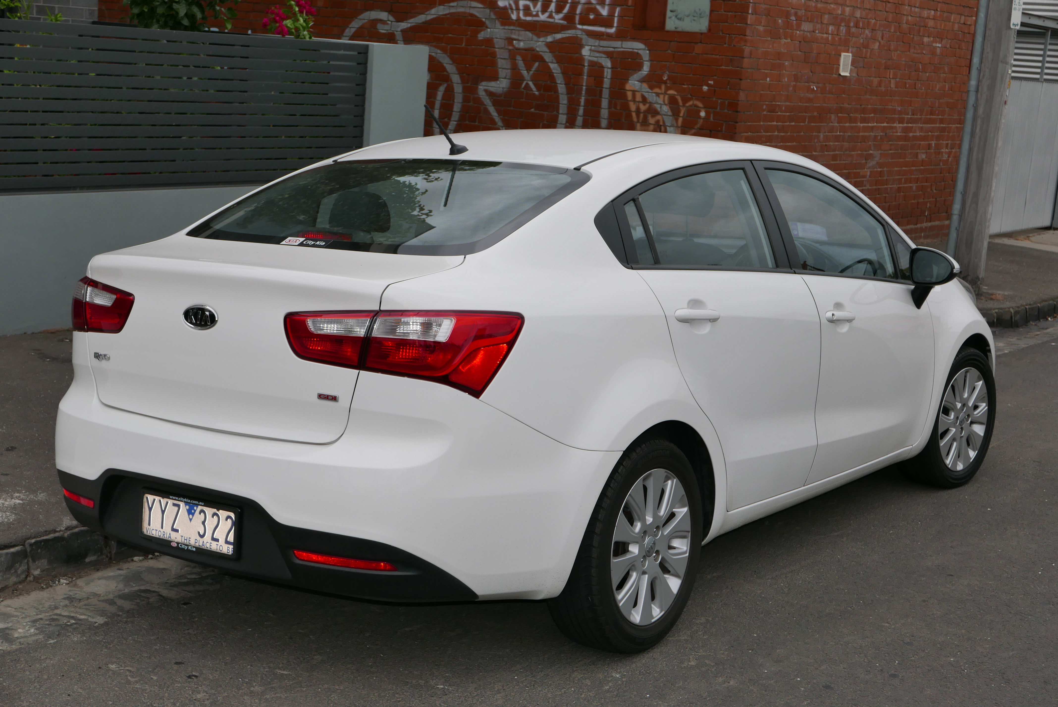 2012 Kia Rio (UB MY12) Si sedan. Photographed in Brunswick, Victoria, Australia. Vehicle registration enquiry resultsJurisdictionVictoriaRegistrationYYZ322Chassis codeKNADN413MC6057890Engine codeG4FDBS222772Compliance date2012-01Year of manufacture2012